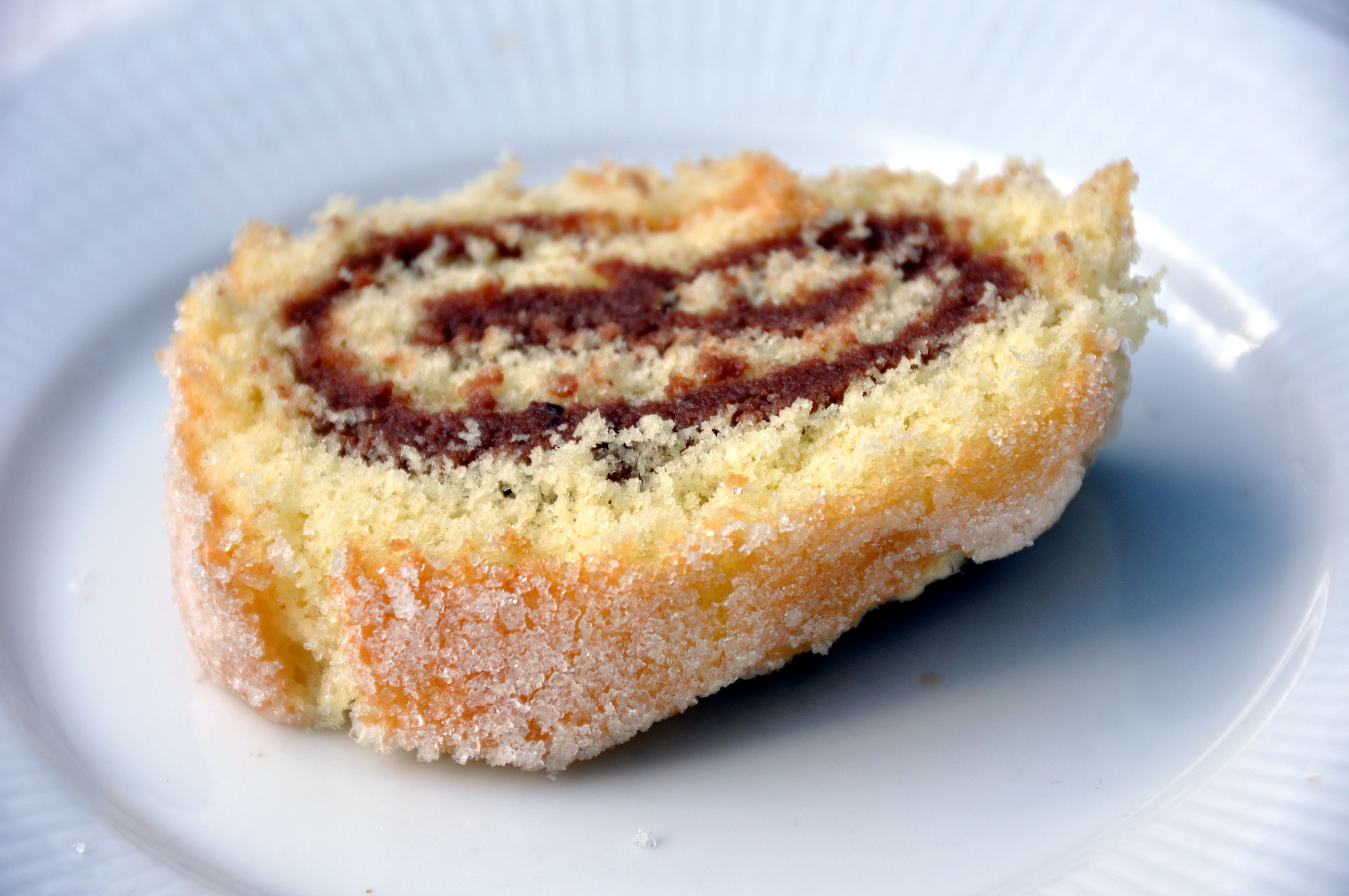 Slice of a Swiss roll.